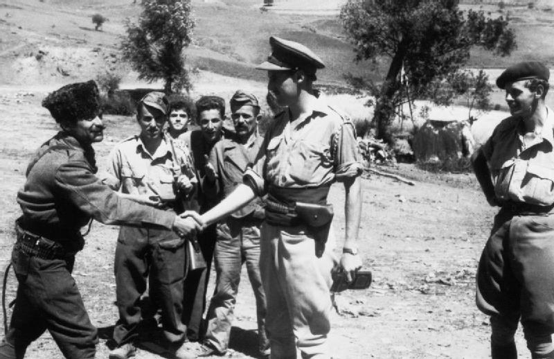 Service of Major David Smiley With the Special Operations Executive (soe) in Albania, 1943 - 1944. Xhelal Staravecke shaking hands with Major Billy McLean at Shtylla, August 1943 during the first SOE mission to Albania. Behind them are Stilian and Stephan and, on the right, Major Peter Kemp.